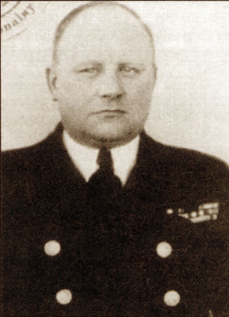 kmdr. Stanisław Mieszkowski